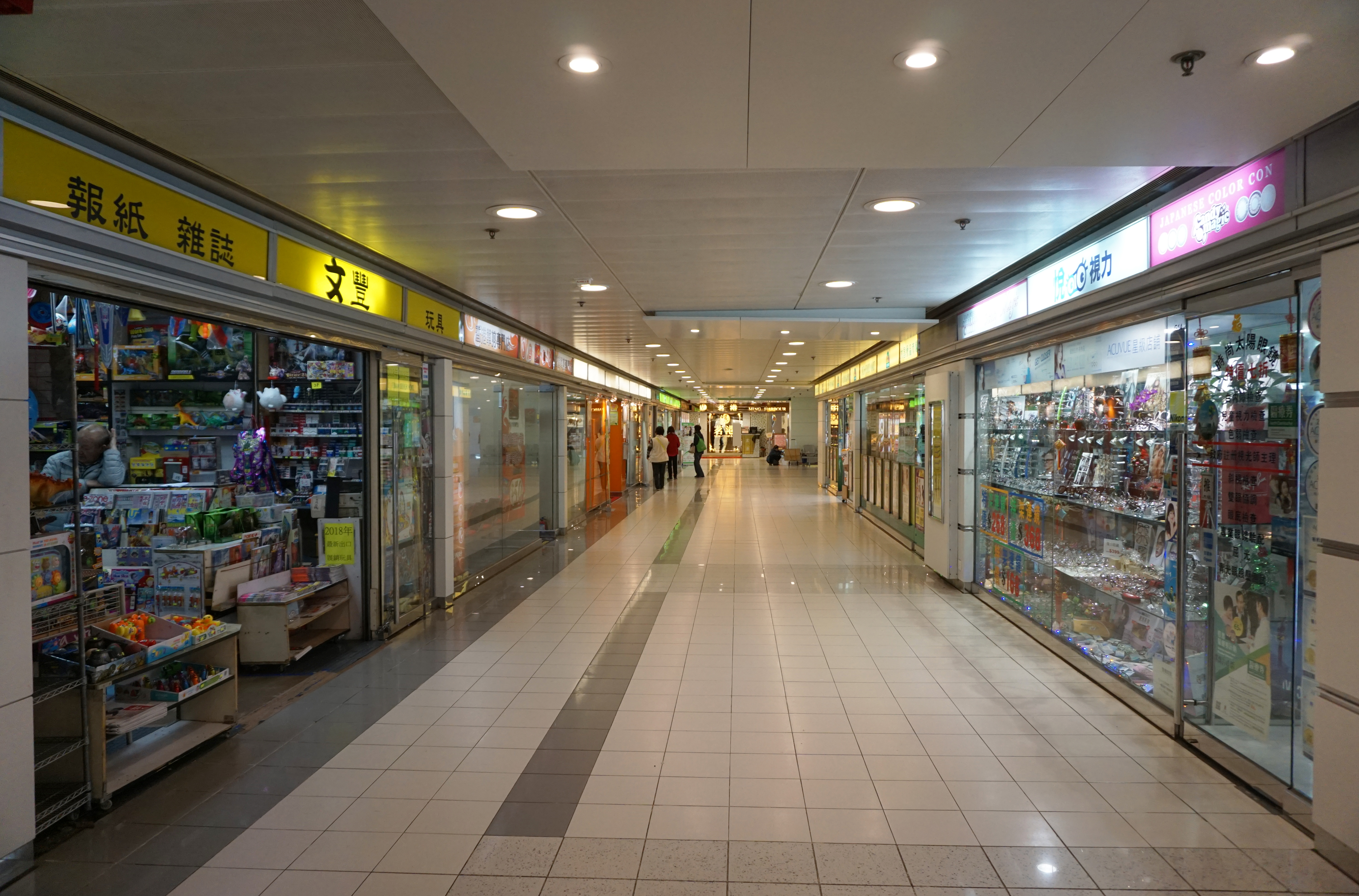 Shek Yam Shopping Centre in Shek Yam, Hong Kong.